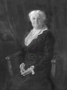 Mrs. Larrabee, wife of William Larrabee (Iowa)